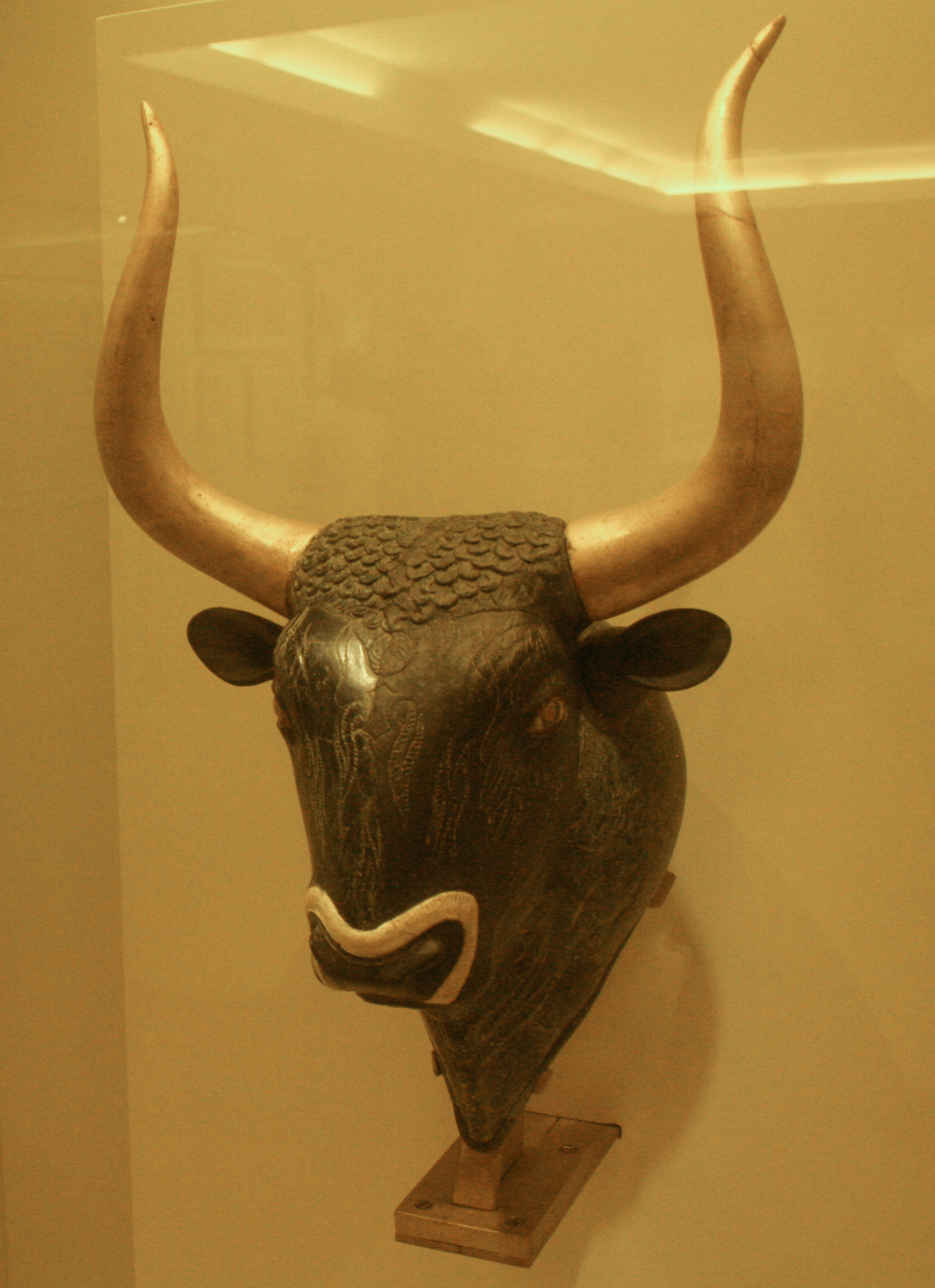 Steatite rython bull head shaped with gilded horns. Found at Knossos now in Heraklion Archeological Museum in Crete.